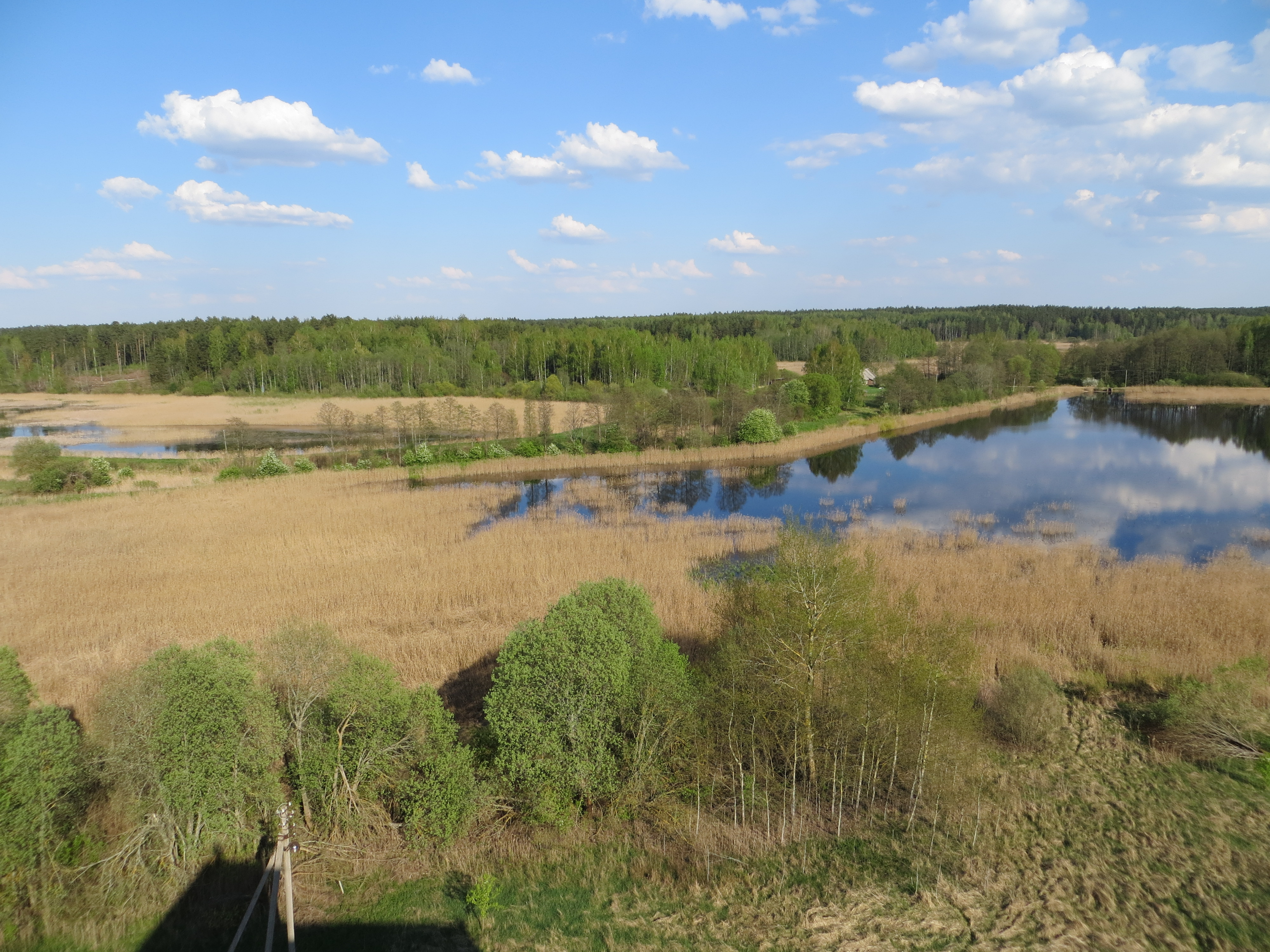 Arnionys I, Lithuania